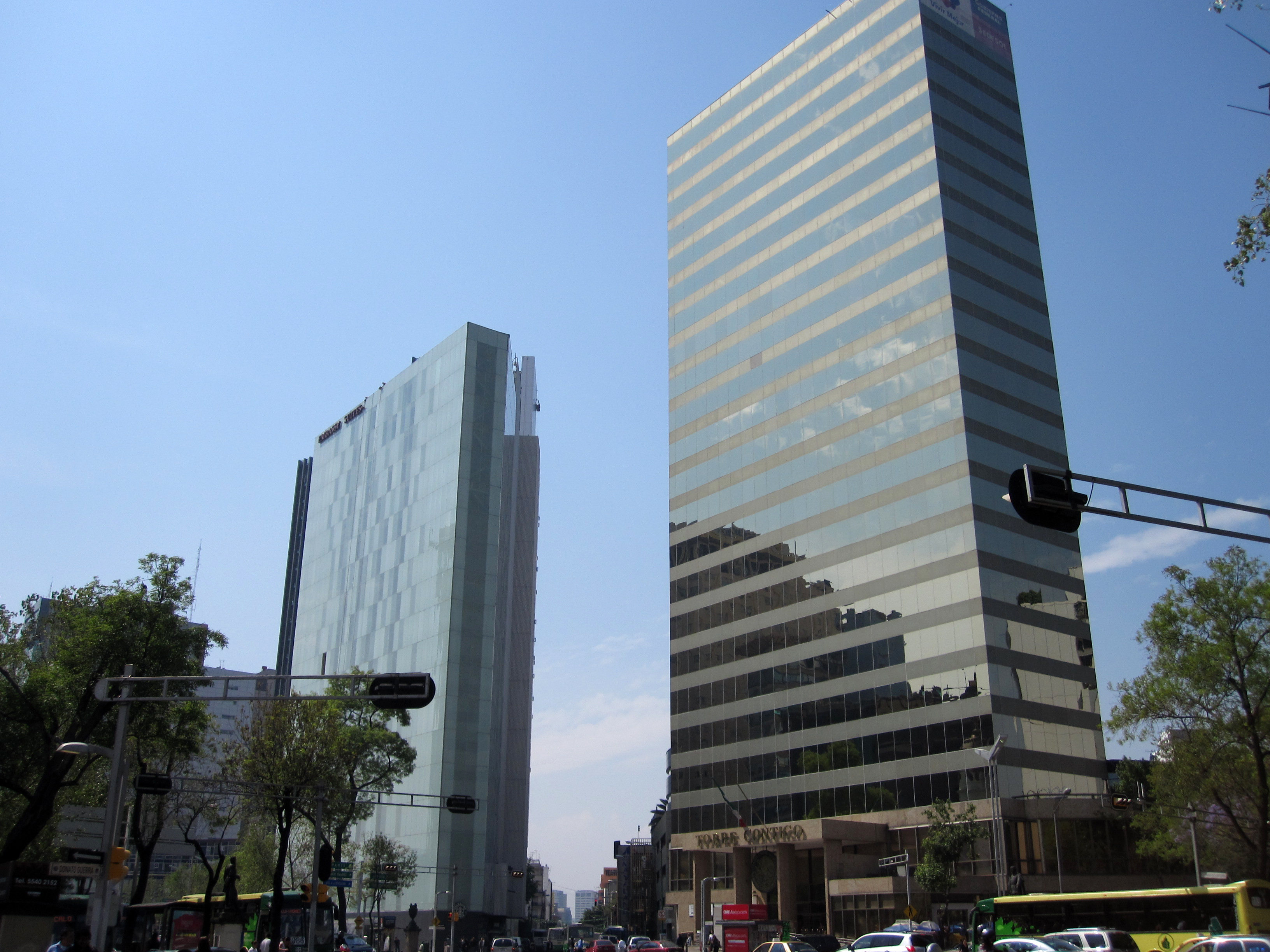 Torre Contigo (to the right) and Embassy Suites (to the left) in Paseo de la Reforma in Mexico City